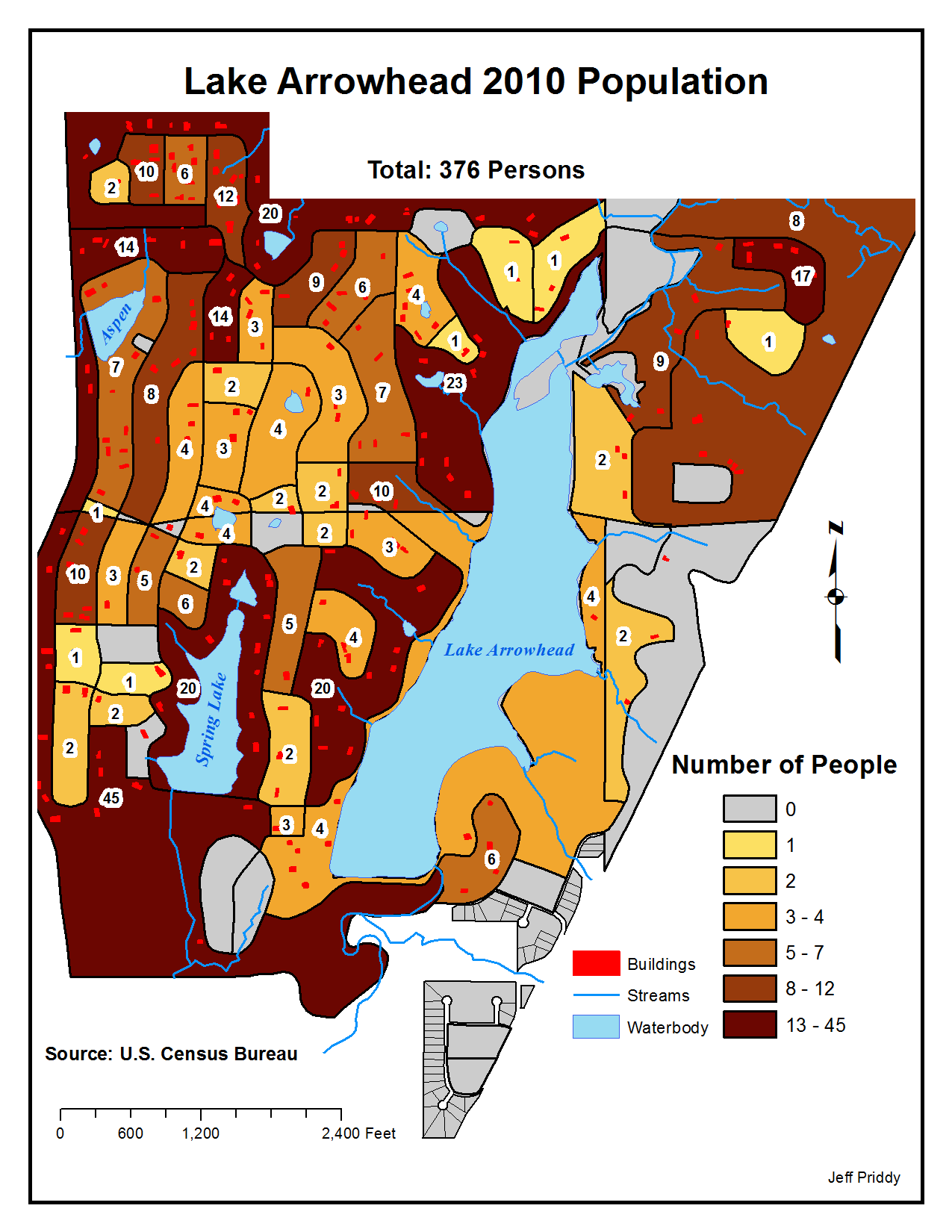 Lake Arrowhead, Lathrop, MO population map from U.S. Census Bureau data. Lake Arrowhead is located in Clinton County Missouri.